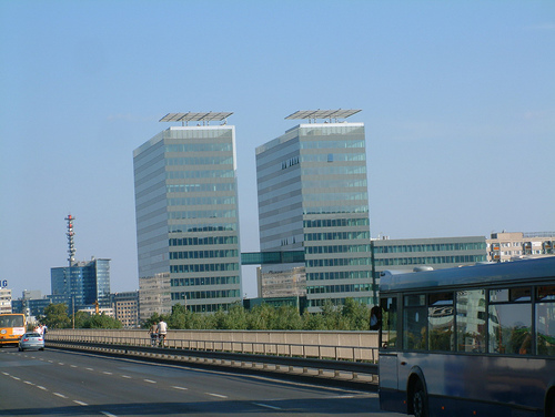 Duna Tower Budapest